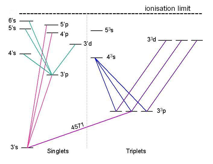 Grotrian diagram of magnesium atom.